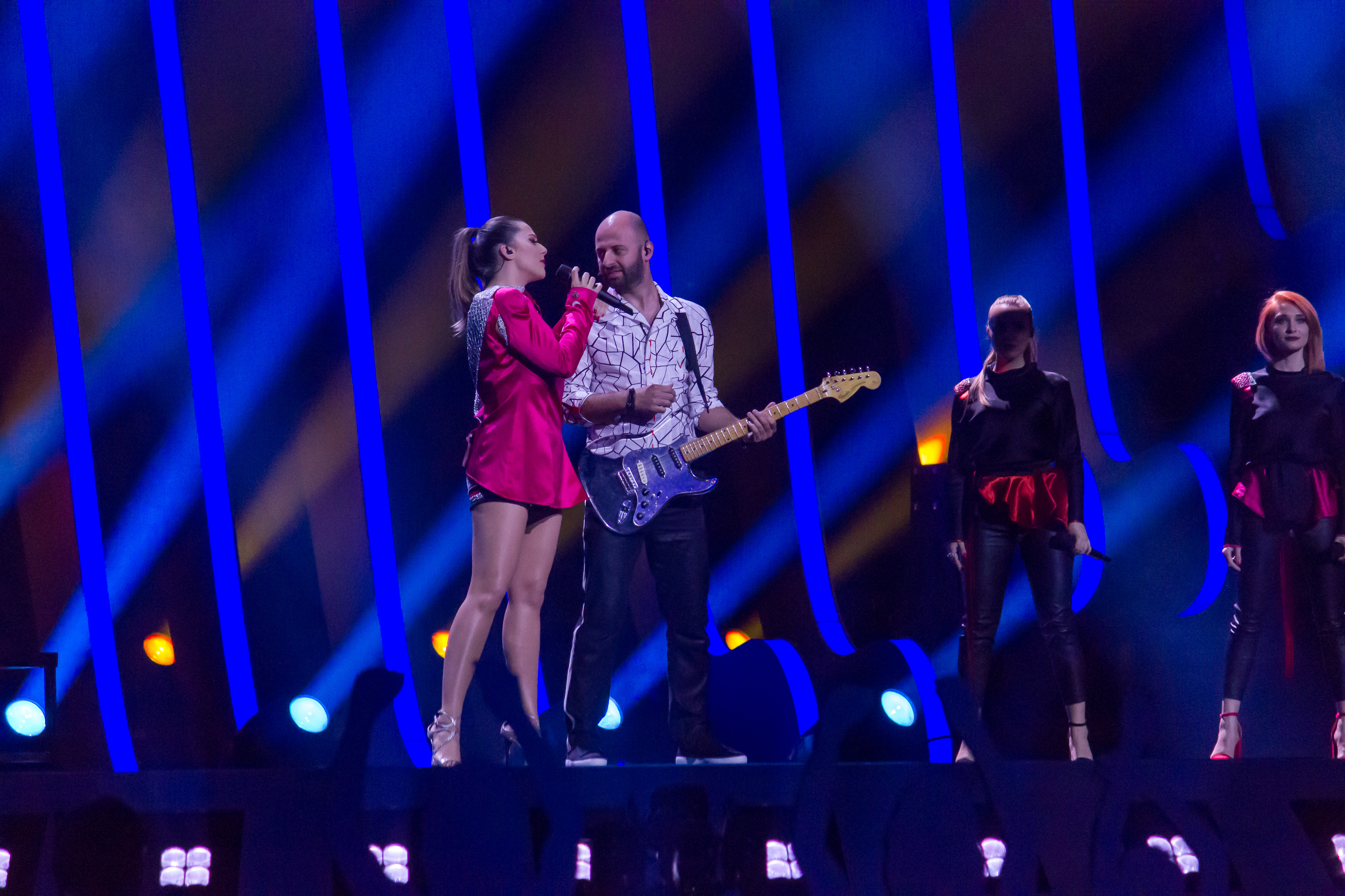 Eye Cue performing at Eurovision 2018